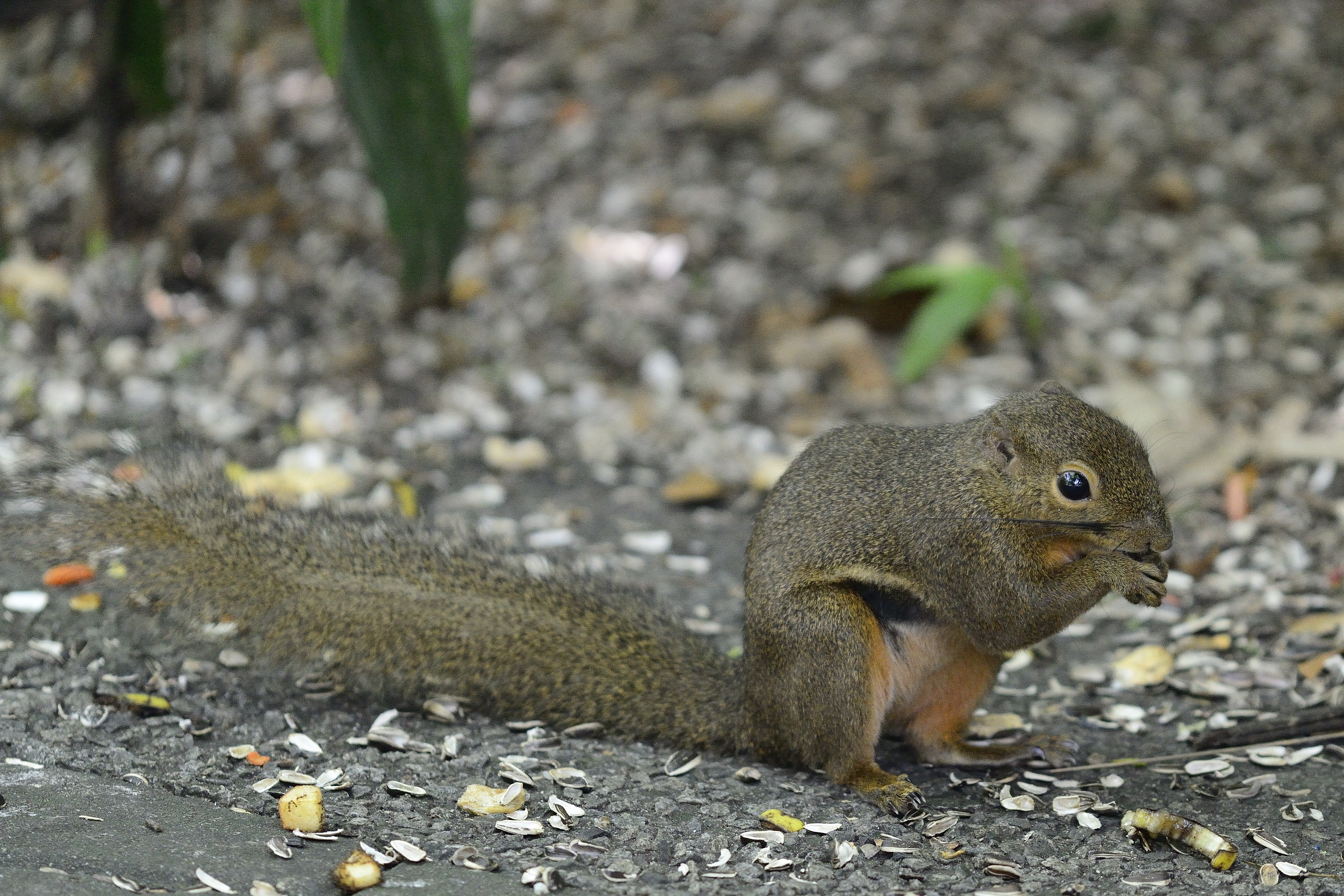 Plantain squirrel. photo in Singapore Zoo.